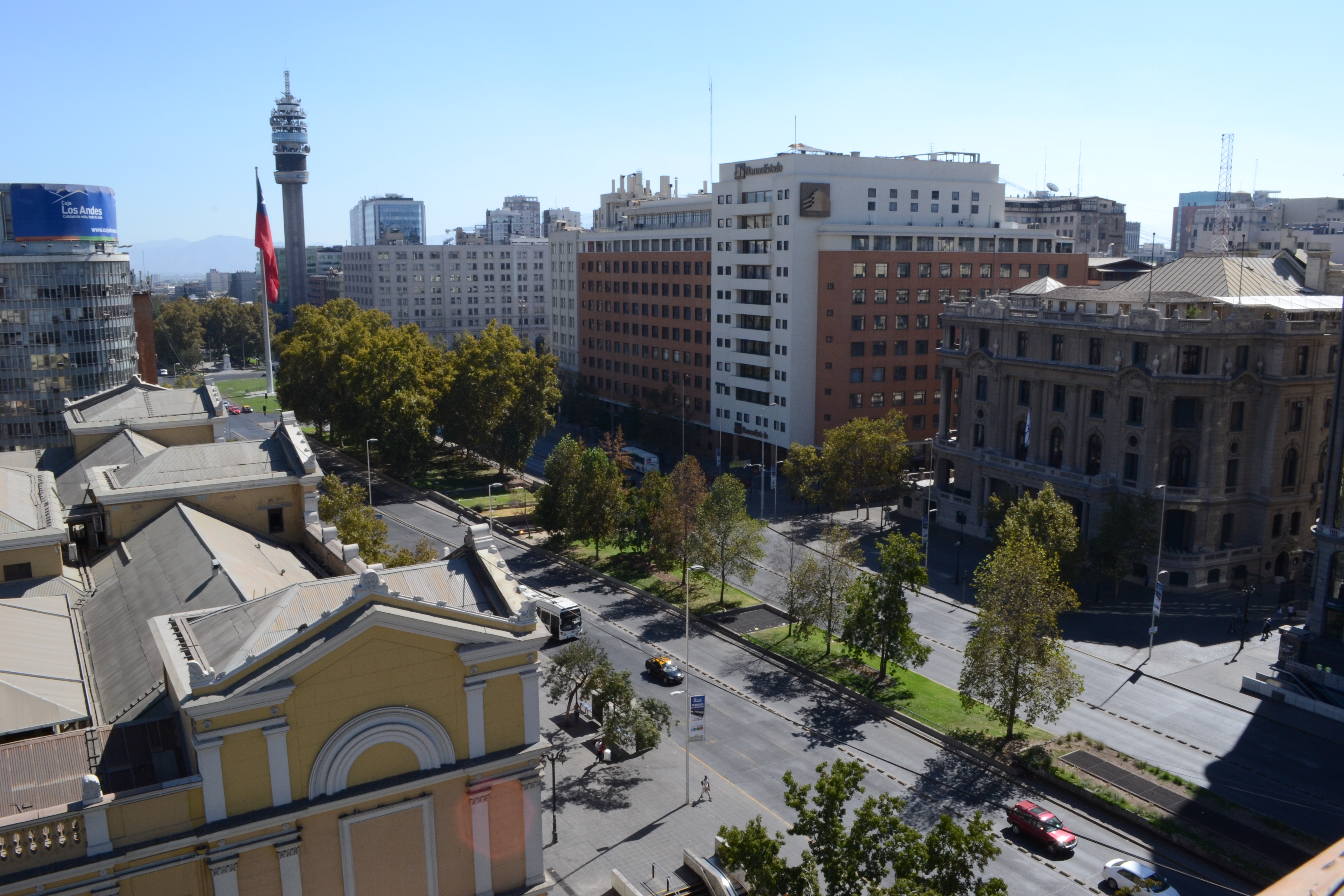 Avenida libertador bernardo O'Higgins also named Alameda in Santiago Chile